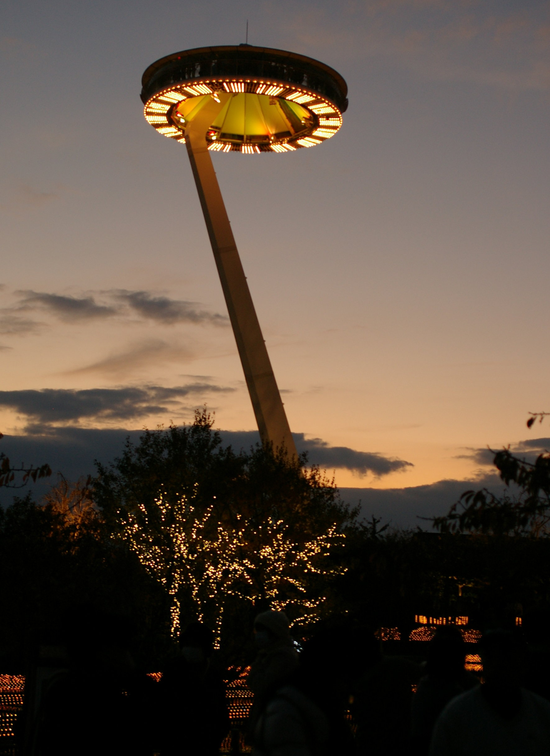 The Island Fuji ride at Nabana no Sato.